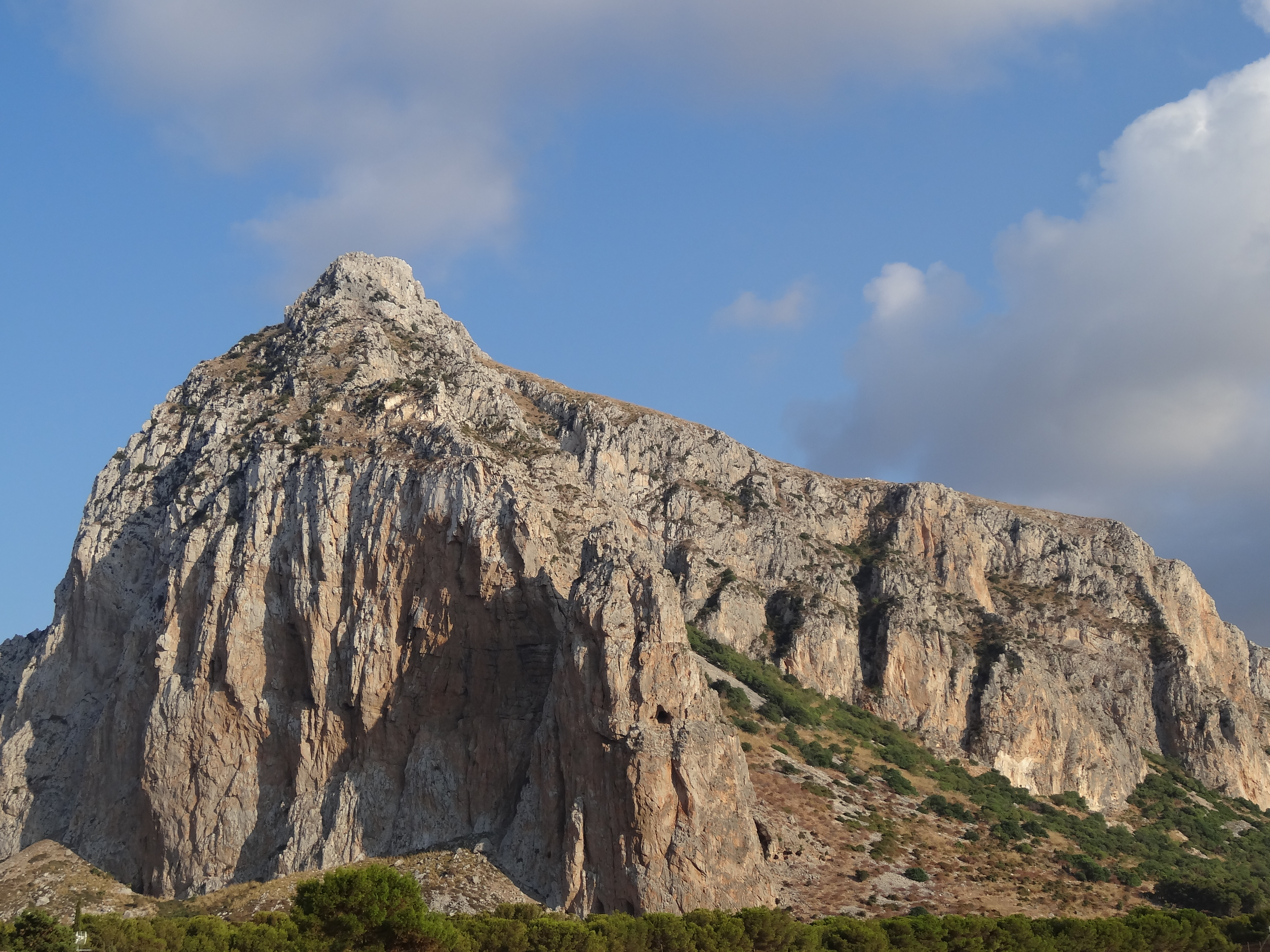 monte monaco san vito lo capo